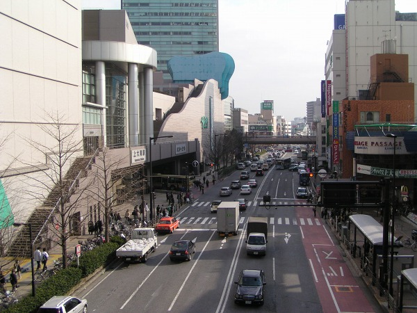 Kamakura Kaido adjacent to Kamioooka station